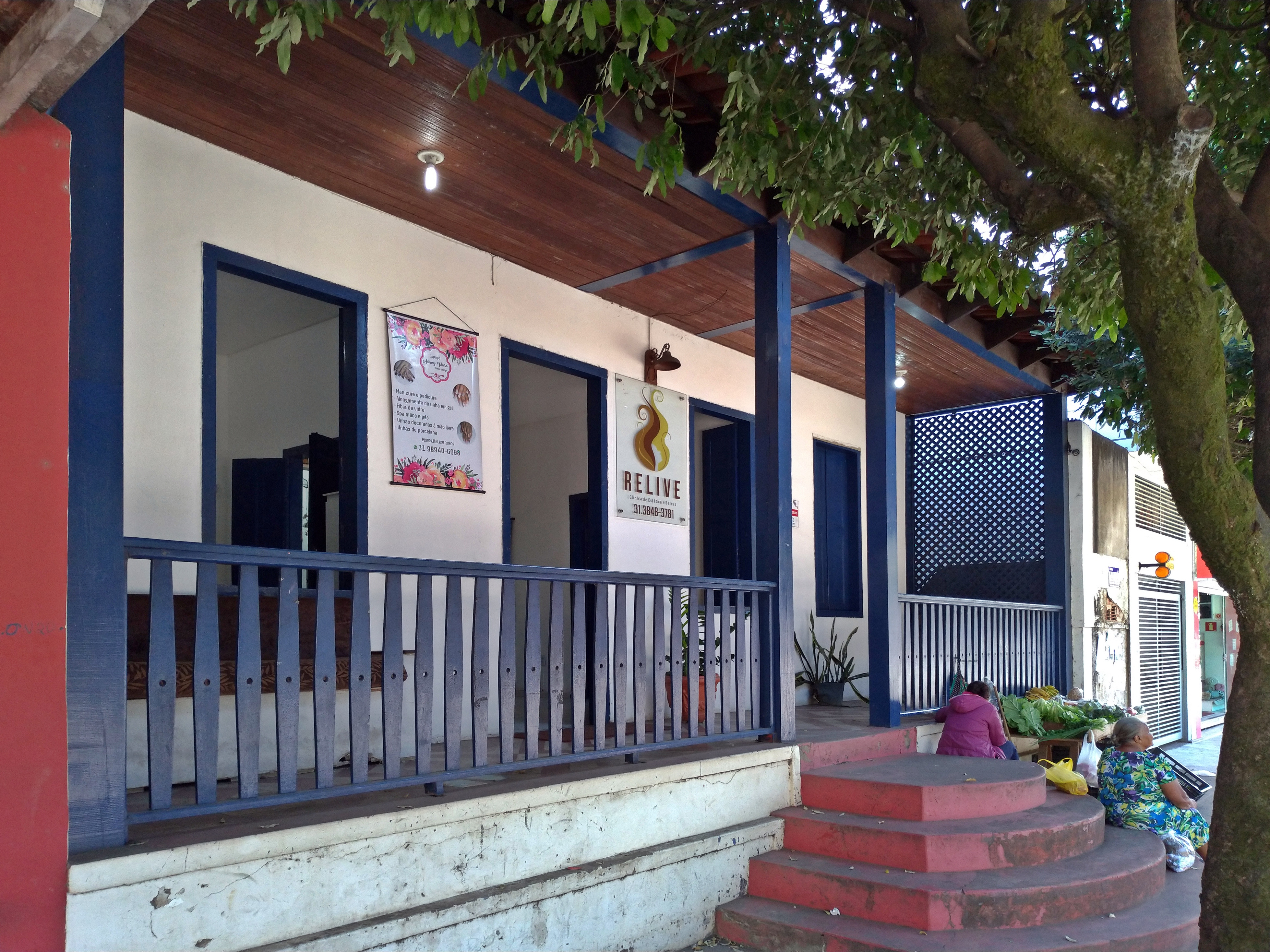 Headquarter of the old Dona Angelina's farm, now used as a store, in Timóteo, Minas Gerais, Brazil.